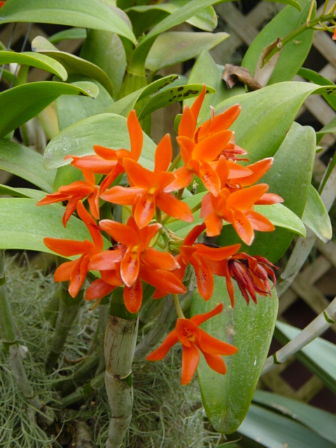 Cattleya aurantiaca, synonym of Guarianthe aurantiaca